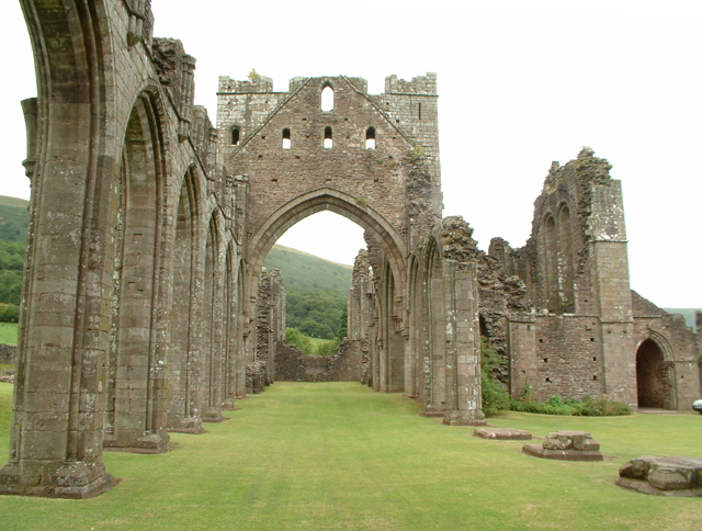 Llanthony Priory. More Arches.